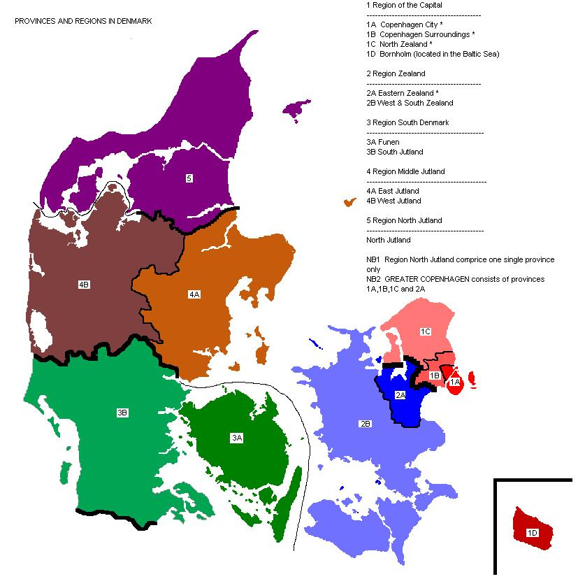 Map showing NUTS statistical areas of Denmark. The country is divided into 5 regions (NUTS 2) corresponding to the 5 administrative regions, and below that 11 provinces (NUTS 3). 1A - Byen København (Copenhagen City) 1B - Københavns omegn (Copenhagen surroundings) 1C - Nordsjælland (North Zealand) 1D - Bornholm 2A - Østsjælland (East Zealand) 2B - Vest- og Sydsjælland (West and South Zealand) 3A - Fyn (Funen) 3B - Sydjylland (South Jutland) 4A - Østjylland (East Jutland) 4B - Vestjylland (West Jutland) 5 - Nordjylland (North Jutland)